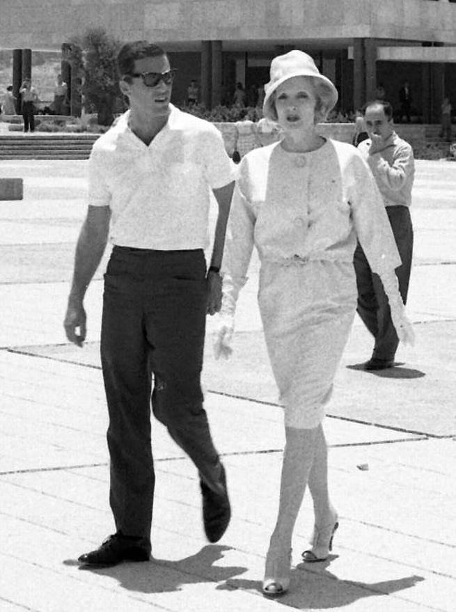 Marlene Dietrich and Burt Bacharach in Jerusalem during a 1960 concert tour of Israel.